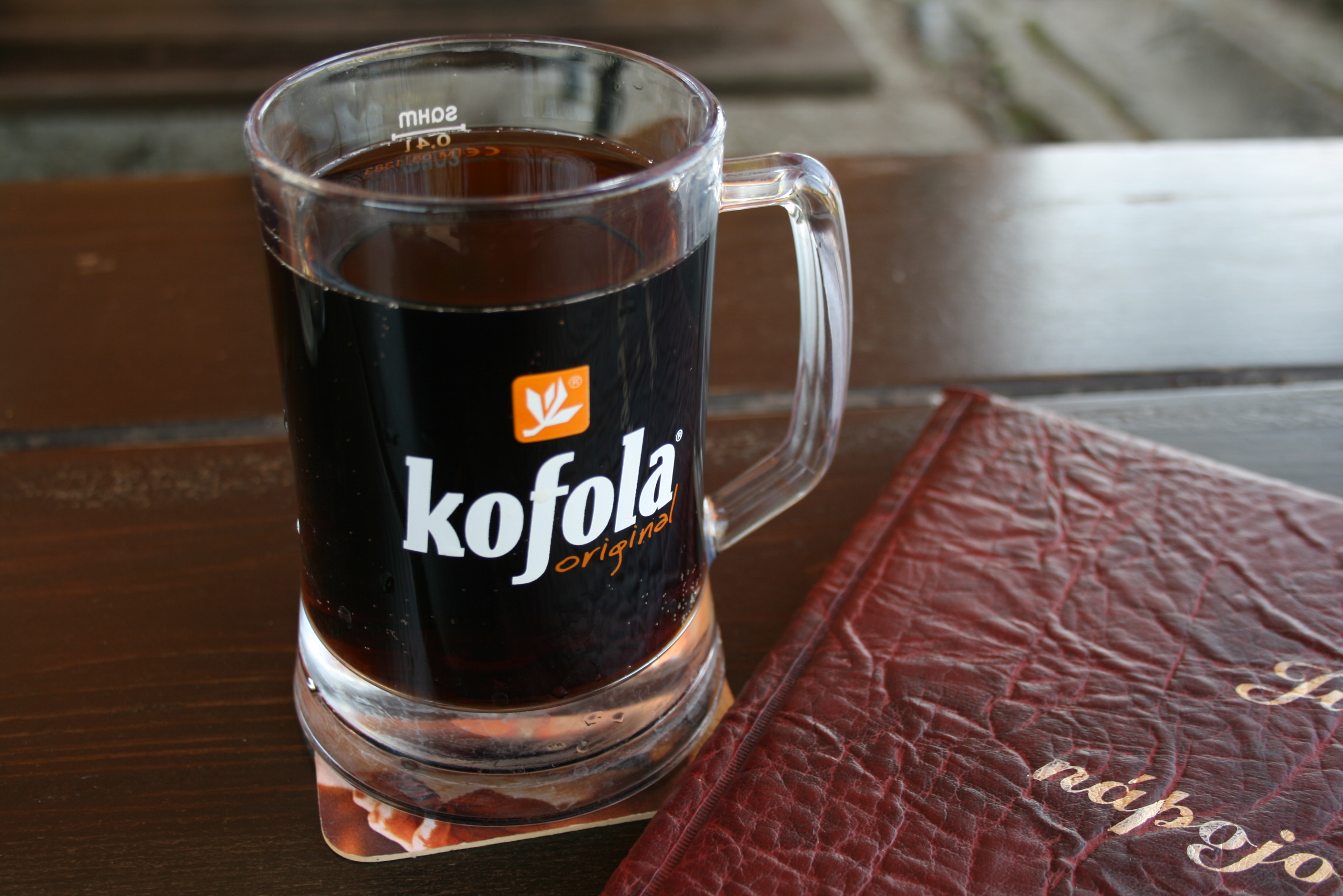 A glass of Kofola, national Czech non-alcoholic drink. Česky: Kofola - značková sklenice 0,4 l.